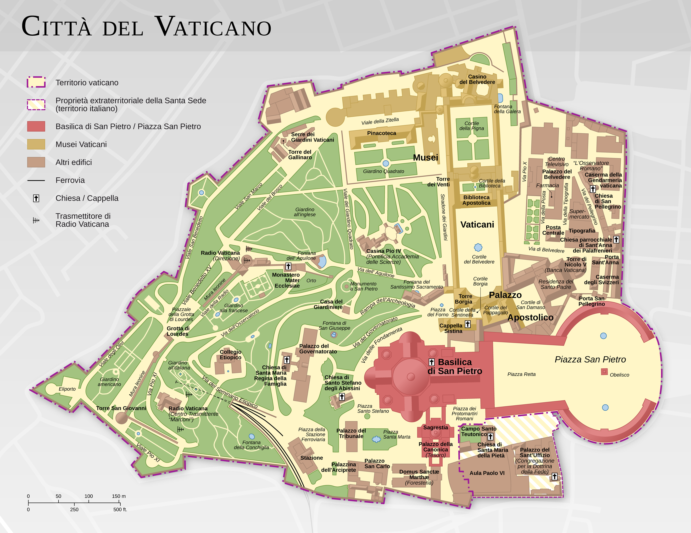 Map of the Vatican City (Italian version)